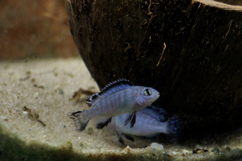 Childreen of Pseudotropheus Socolofi from Lake Malawi